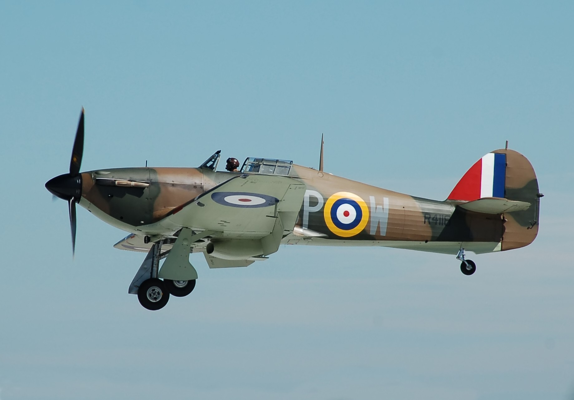 Hawker Hurricane R4118 arrives at the 2014 Royal International Air Tattoo, RAF Fairford, Gloucestershire, England.. This aircraft fought in the Battle of Britain in WW2, flying 49 sorties with 605 (County of Warwick) Squadron and shooting down five enemy aircraft. It later saw combat with 111 Squadron before taking up training duties. The airframe was found in India, and brought to the UK in 2001 by its current owner Peter Vacher. It was restored and flew again at Christmas 2004. Peter Vacher keeps it at a farm strip near North Moreton, Oxfordshire, England.